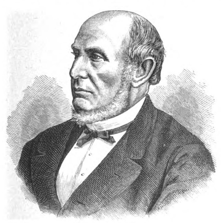 Carl Arendts (1815-1881)